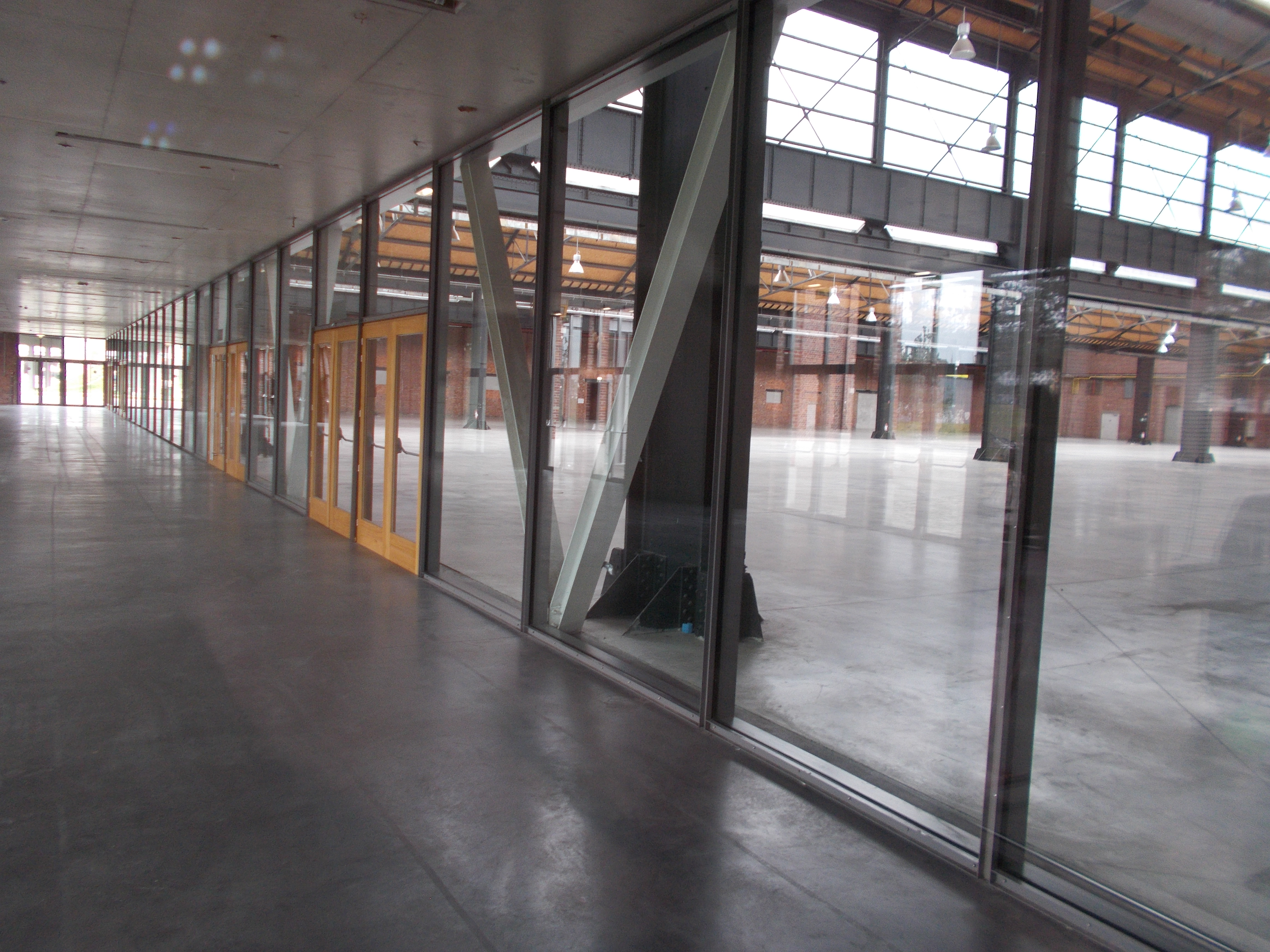 Old Wagon Hall in Park Spoord is used as Sport Hall.